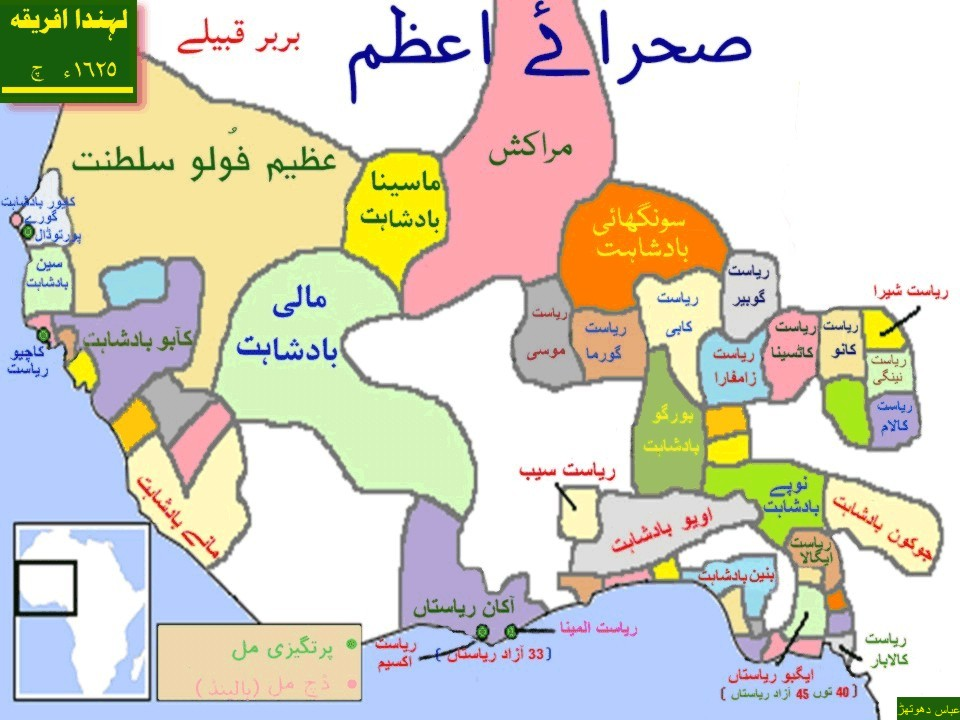 Map of West Africa (1625 A.D) in Punjabi.